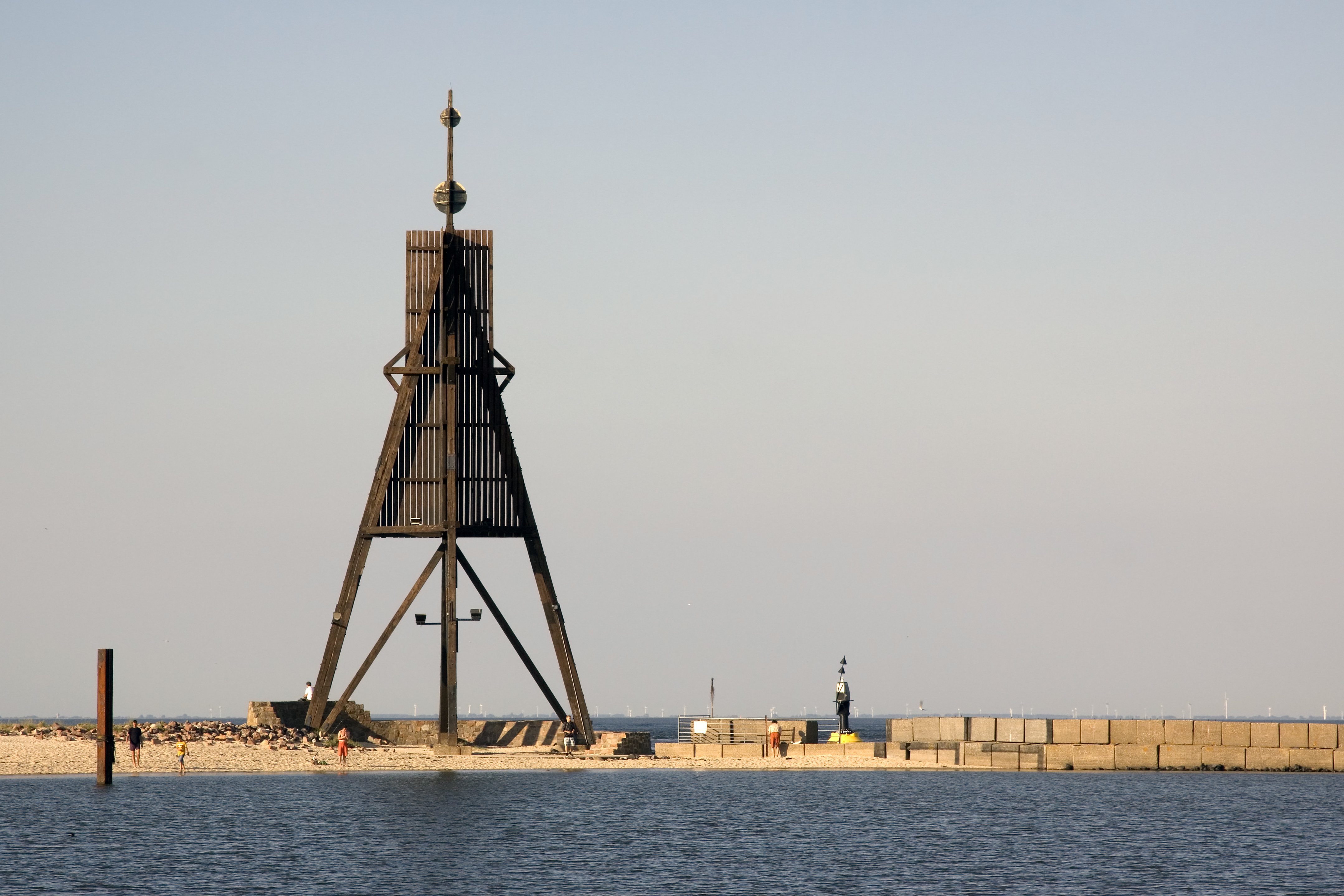 Kugelbake (sea mark near Cuxhaven)